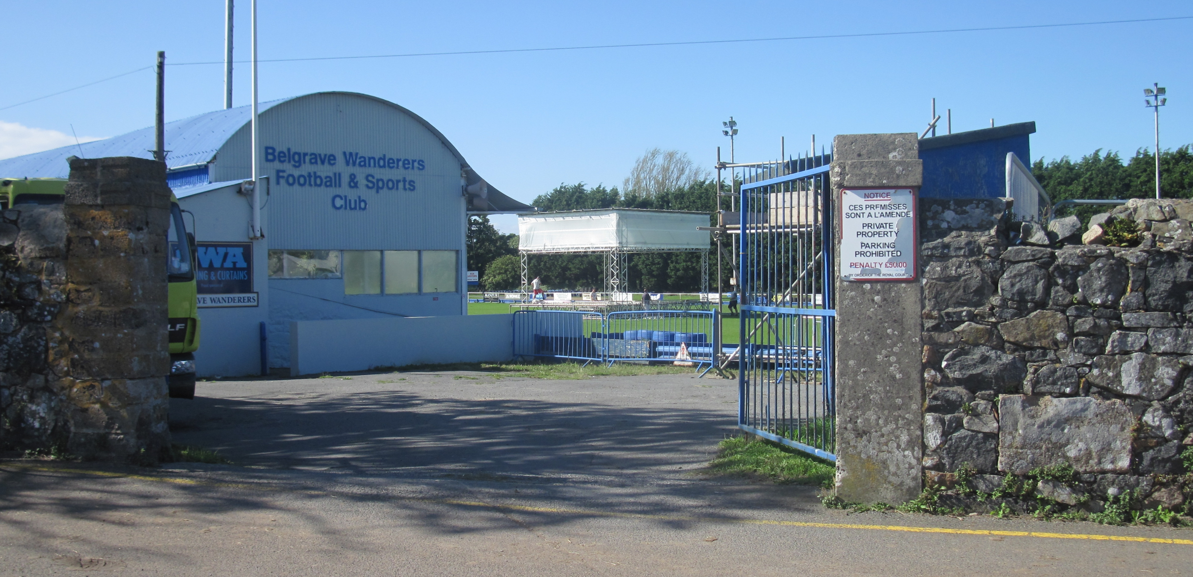 Saint Sampson, Guernsey Nrf: Saint Samsaon (Guernési)